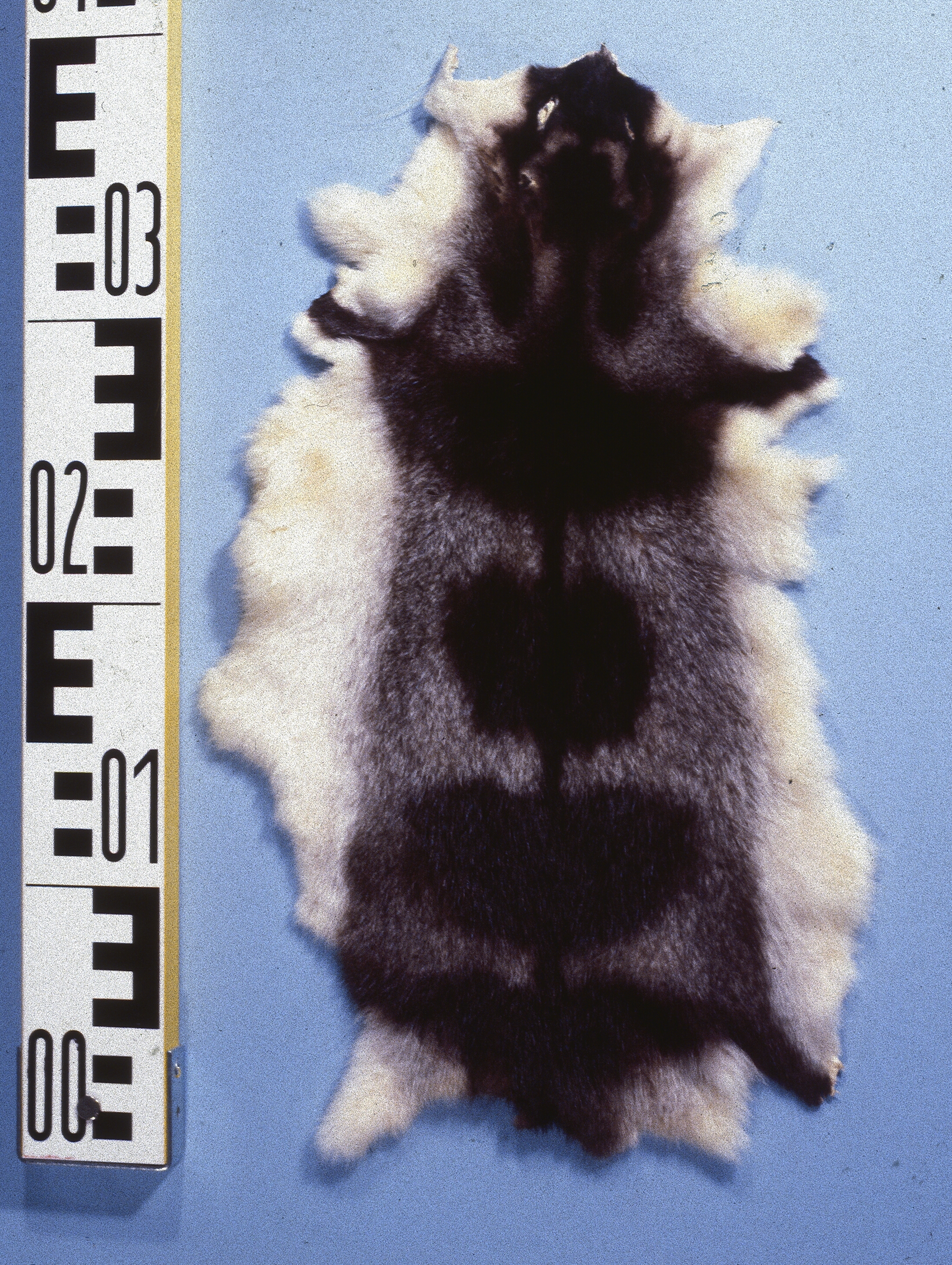 Yapok fur skin, ‘Lampara de aqua’, (Chironectes minimus). Fur skin collection, Bundes-Pelzfachschule, Frankfurt/Main, Germany